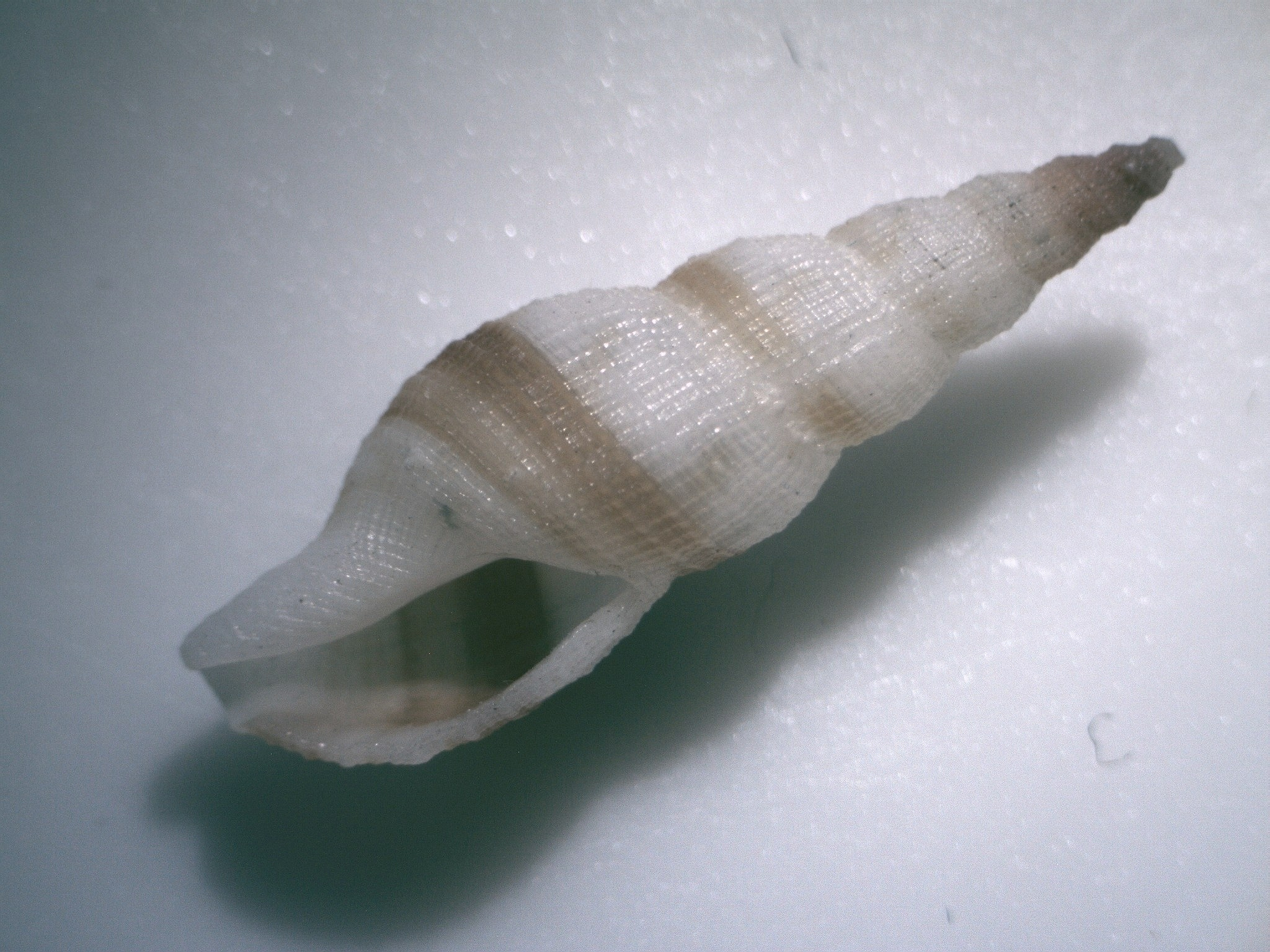 Daphnella aureola (L. A. Reeve, 1845), a cone snail in the family Conidae; Philippines